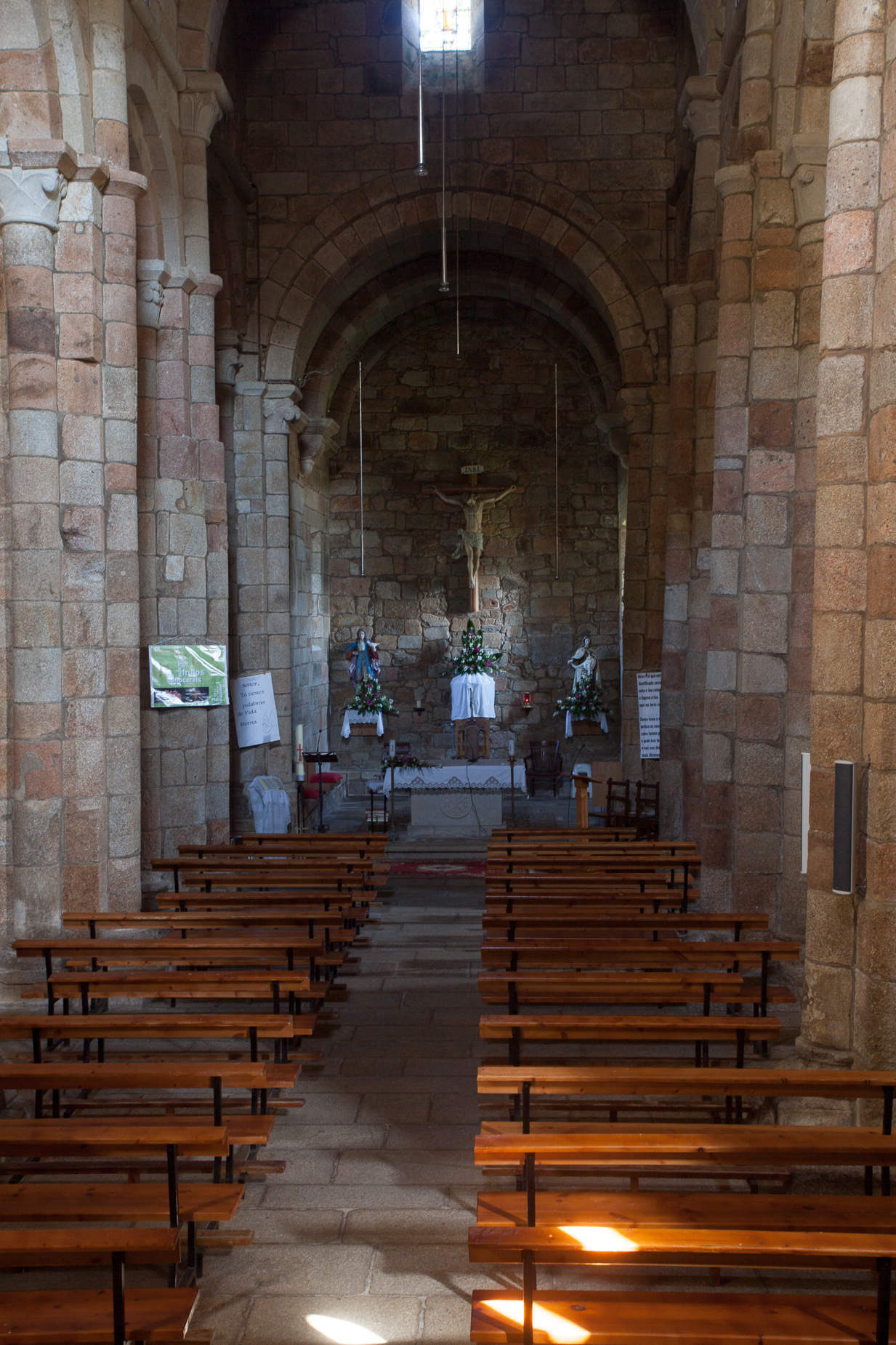 San Xulián de Moraime. Muxía. Galicia (Spain)